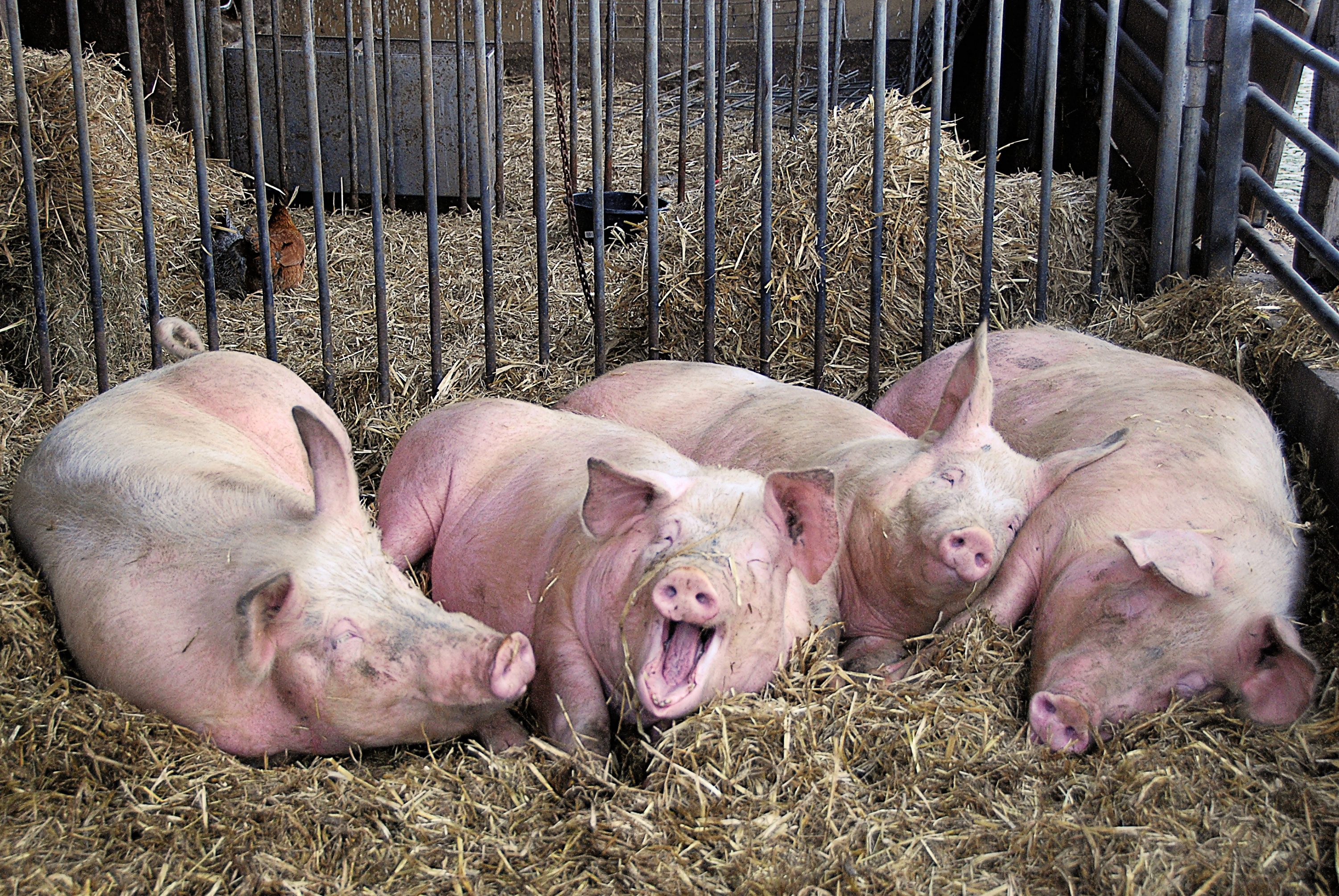 Name: Sus domesticus. Location: Münster, NRW, Germany